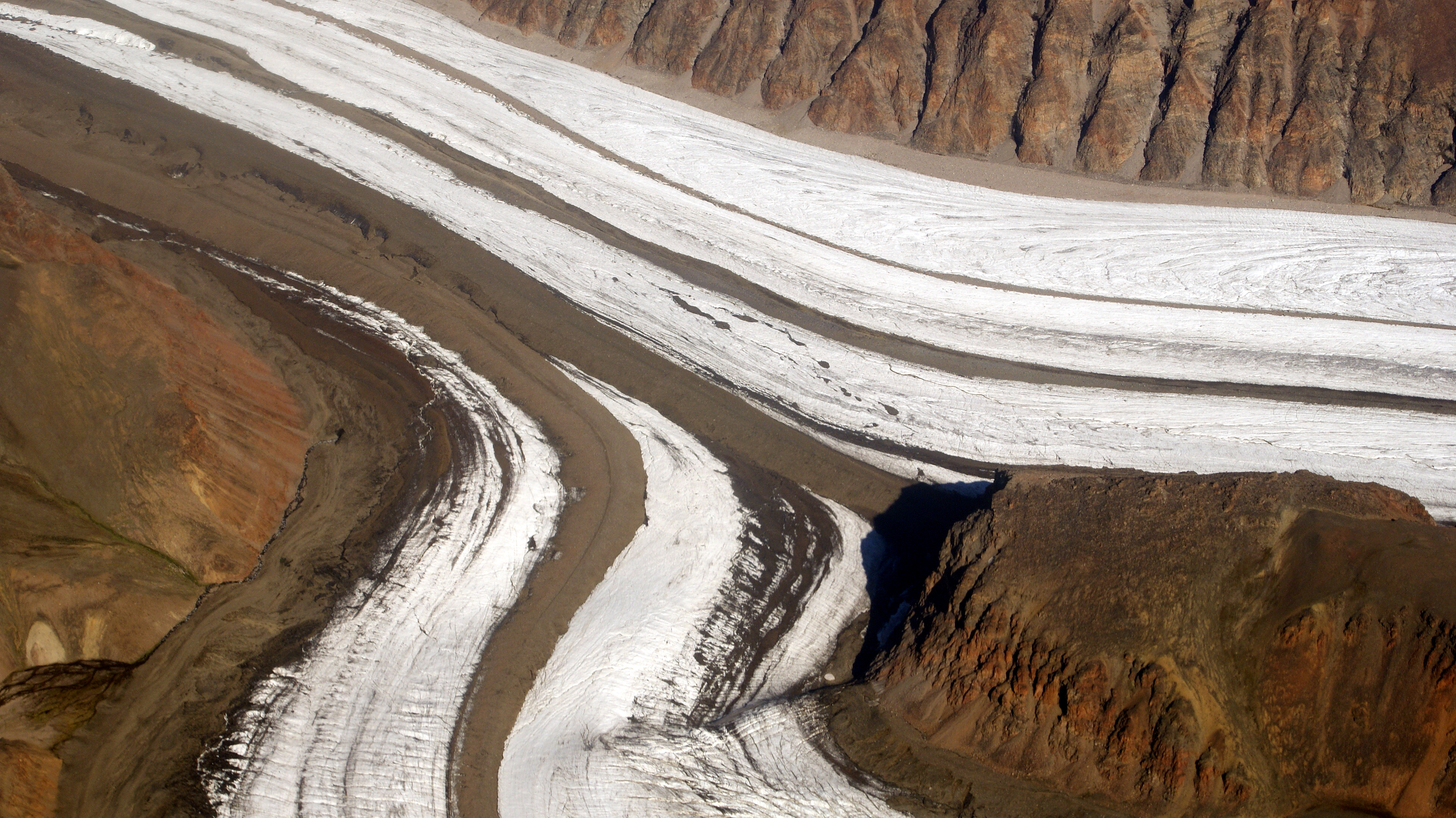 Aerial view of medial glacier moraines, Nuussuaq Peninsula, Greenland.